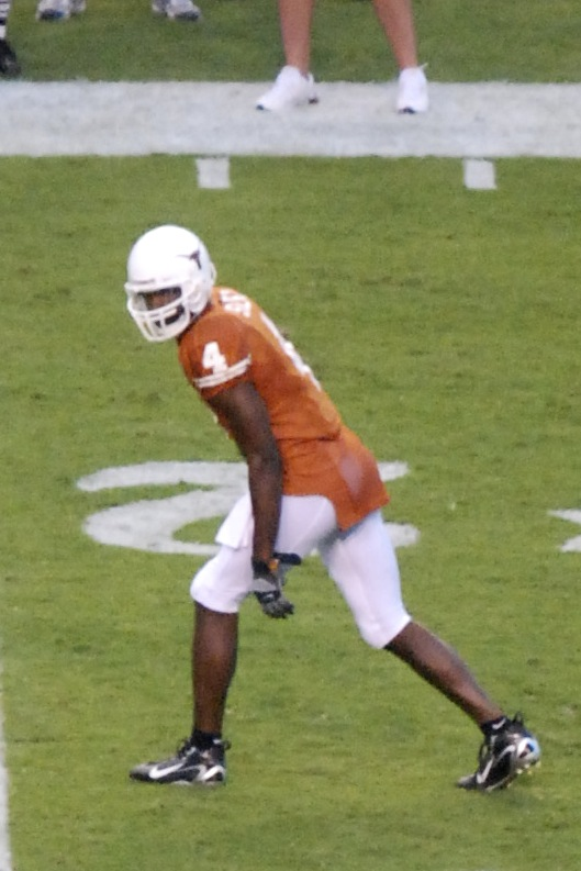 Limas Sweed lining up as a wide receiver for the University of Texas